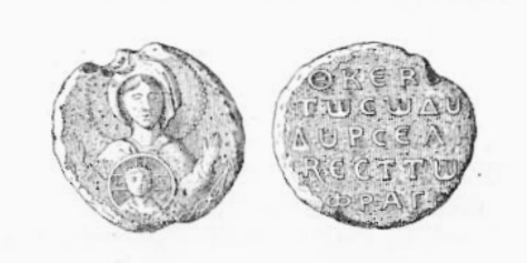 Obverse: a bust of the Virgin, praying, with a medallion of Christ Reverse: the legend ΘΚΕ ΒΘ ΤΩ CO ΔΟΥΛ OYPCEΛH BECT ΤΩ ΦΡΑΓΟ, which is short for ΘΕΟΤΟΚΕ ΒΟΗΘΕΙ ΤΩ CO ΔΟΥΛΩ ΟYΡCΕΛΗΩ BECTHAPITH ΤΩ ΦΡΑΓΓΟΠΩΛΩ, which translates to "Mother of God, give comfort to your servant Urselius [Roussel de Bailleul], the vestiarios, the Frenchman".